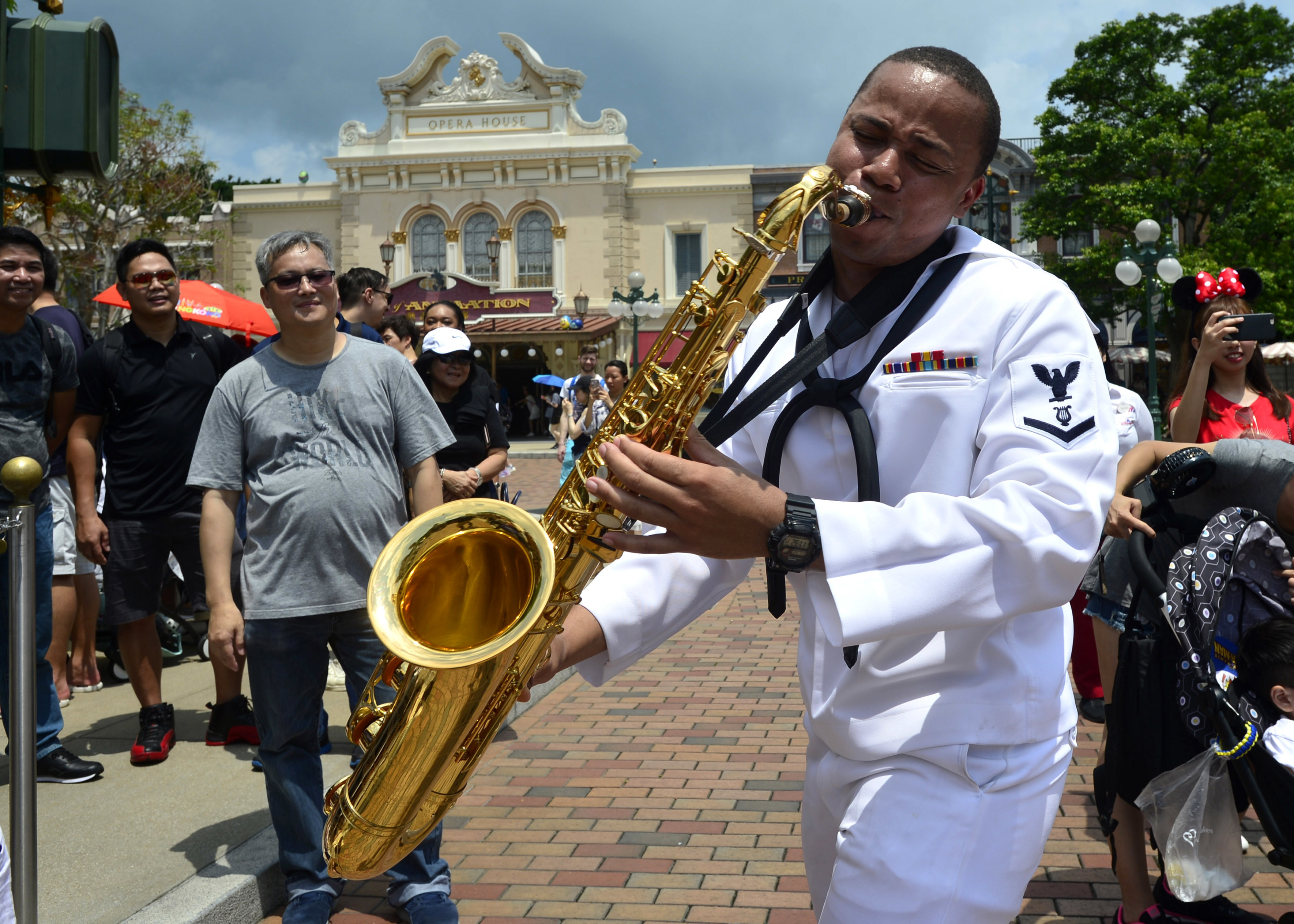 190423-N-TO792-114 HONG KONG (April 23, 2019) - Musician 3rd Class Jarell L. Harris, from Jacksonville, Fla., attached to U.S. 7th Fleet Band Far East Edition Brass Band, blares saxophone during a performance at Disneyland Hong Kong. The U.S. 7th Fleet Band is aboard U.S. 7th Fleet Flagship USS Blue Ridge (LCC 19) conducting a port visit in Hong Kong in support of security and stability within the Indo-Pacific Region. (U.S. Navy photo by Mass Communication Specialist 3rd Class Mar'Queon A. D. Tramble)